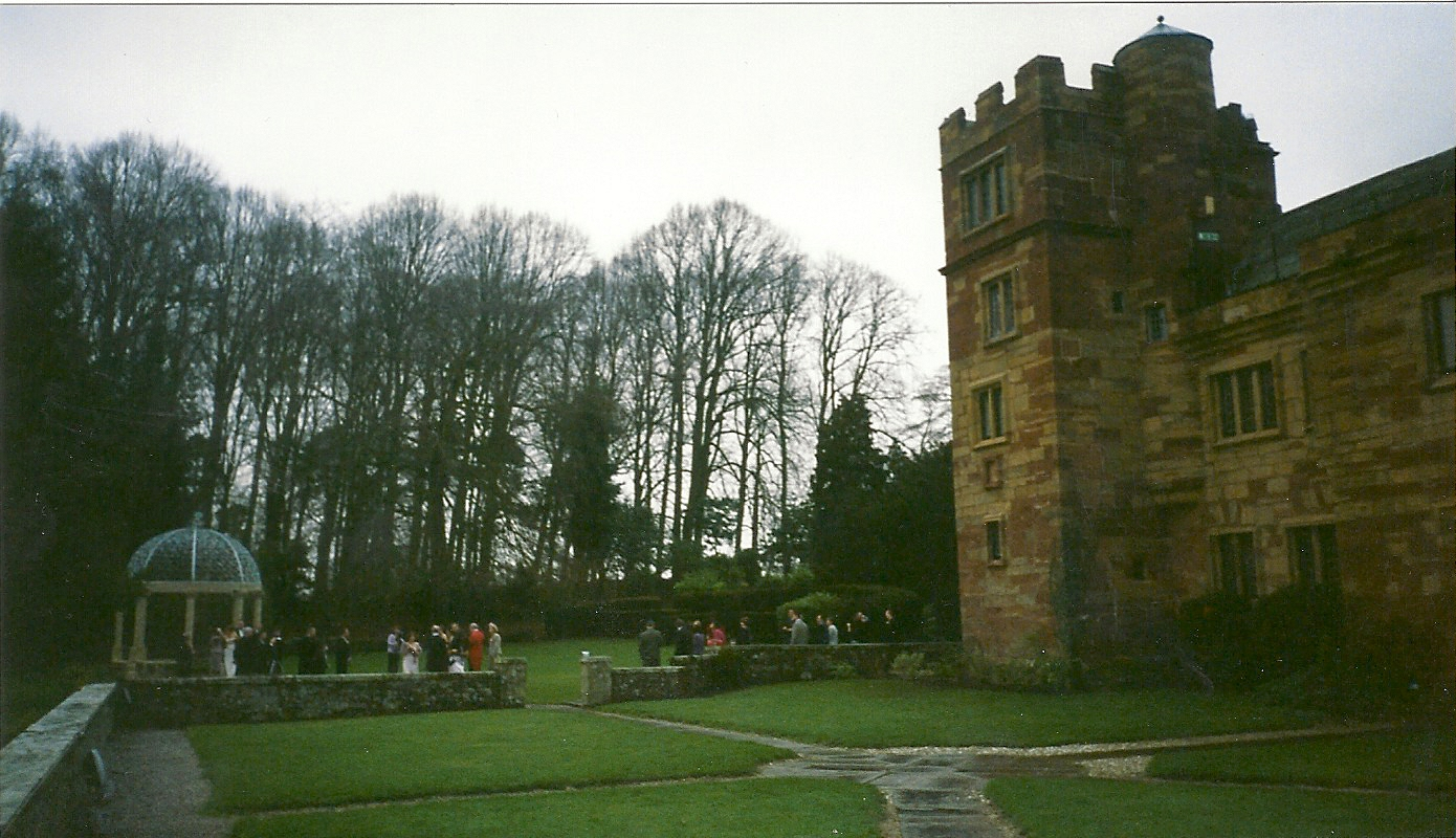 Dalston Hall